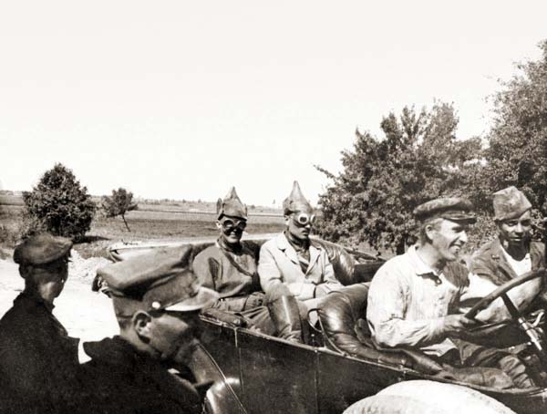 Soviet legates for armistice negotiations on the Soviet-Polish frontline. August 1920